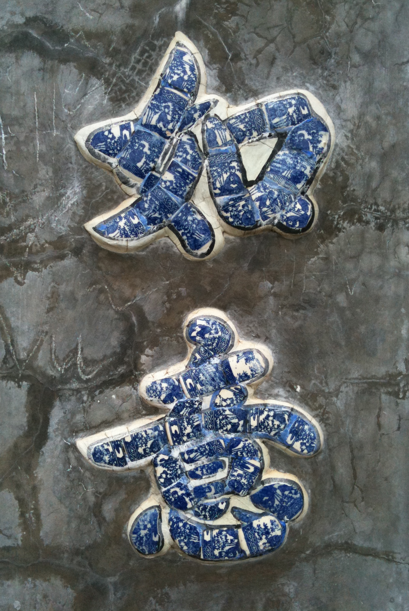 Two Chinese characters (如意), roughly meaning "wishful" or "ideal", on a pillar in Linh Ung Pagoda in the Marble Mountains, Da Nang, Vietnam. The characters are made of fragments of patterned ceramics.